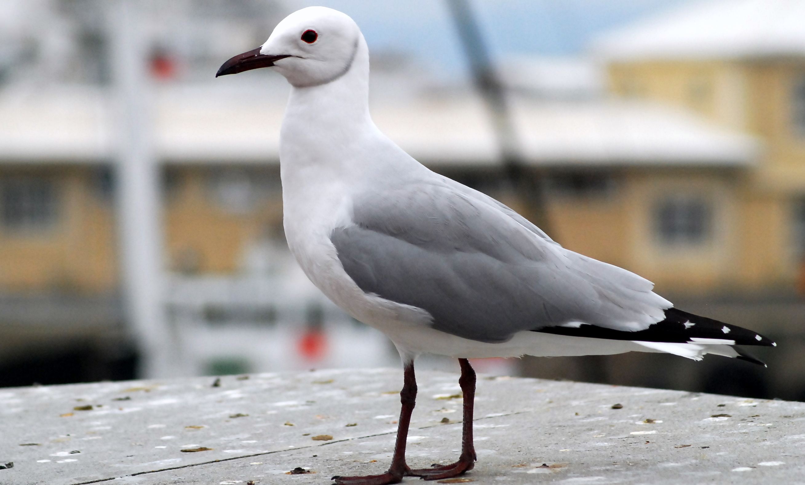 A Hartlaub's Gull in Cape Town, South Africa.